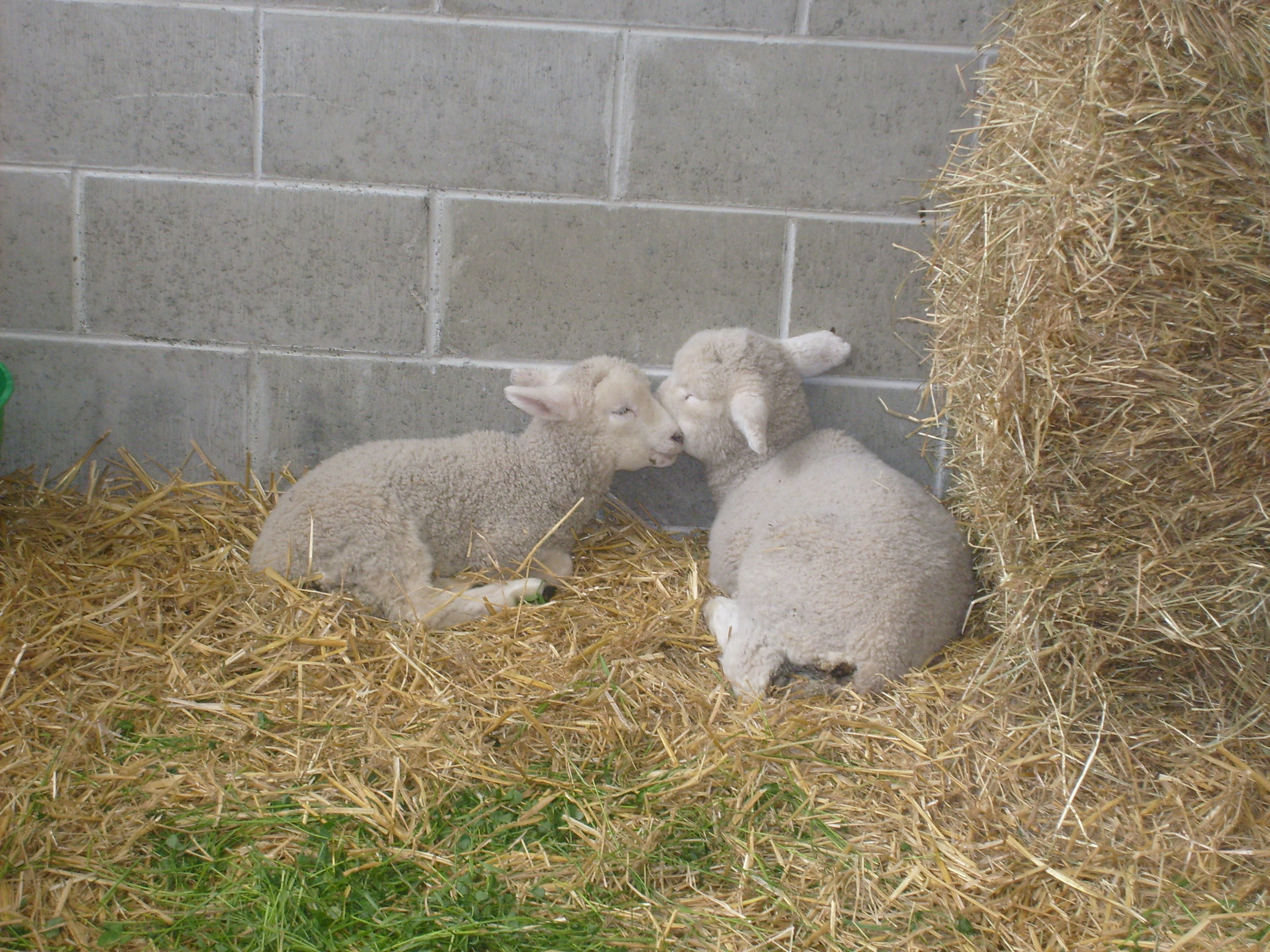 A photo of Sheep from the 2007 New Zealand Royal Show, in Christchurch.